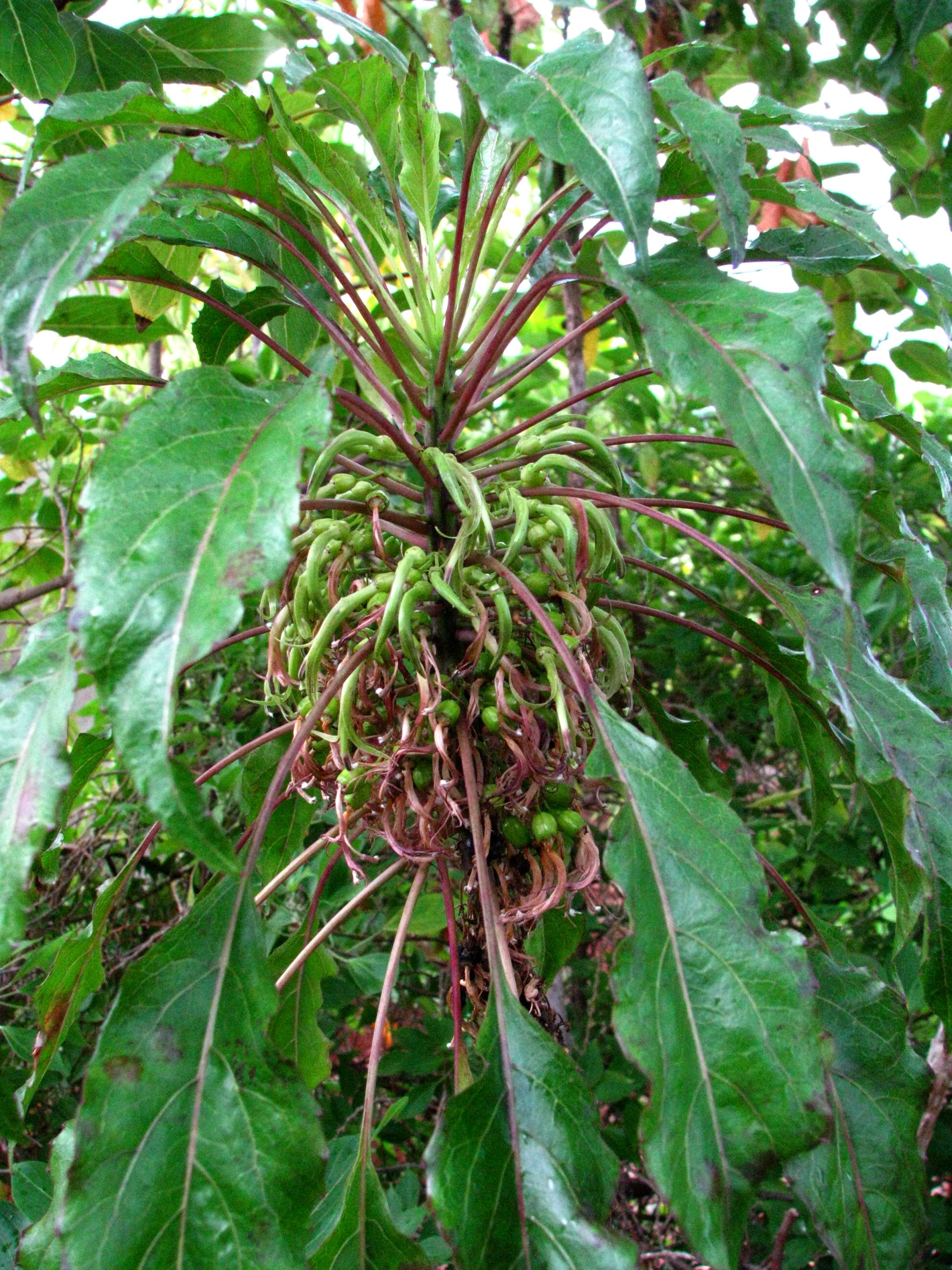 Delissea, Kauai delissea, or Kauai leechleaf delissea Campanulaceae Endemic to the Hawaiian Islands (Kauaʻi only) Endangered Oʻahu (Cultivated)